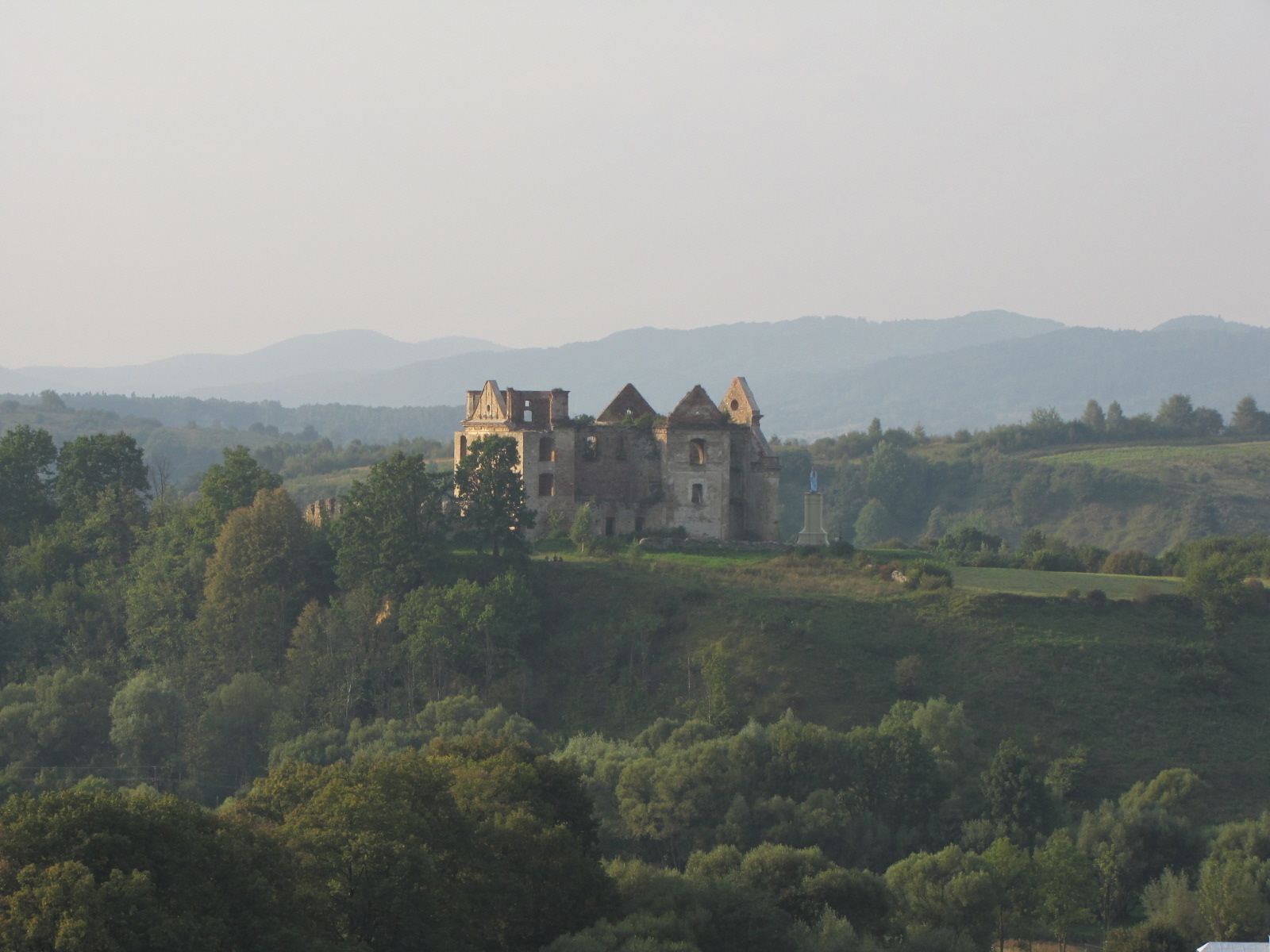 Monastery Fortress Ruins Of the Order of the Brothers of Our Lady of Mount Carmel in Zagórz in Poland